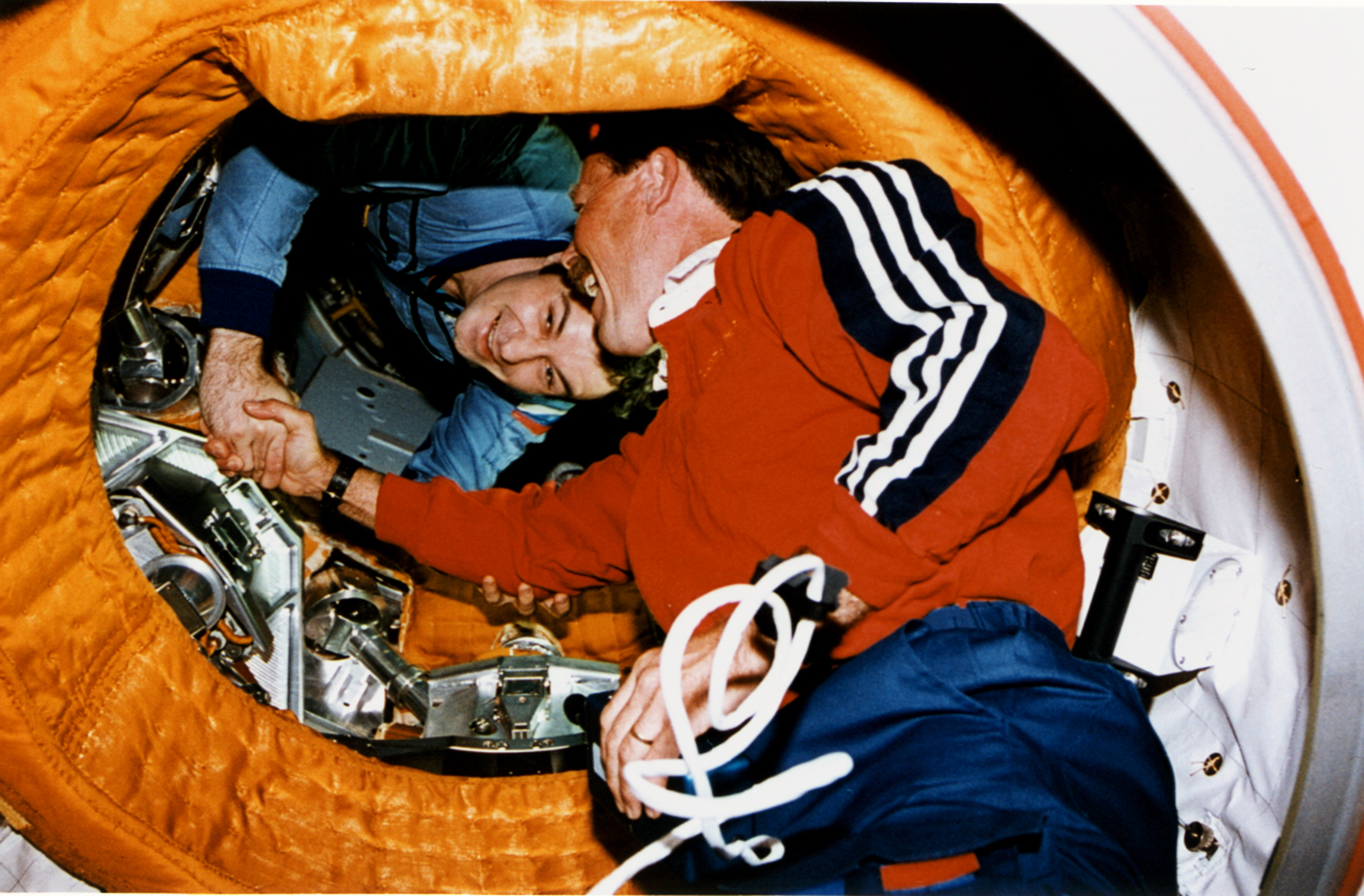 Astronaut Robert L. Gibson, STS-71 mission commander, shakes the hand of cosmonaut Vladimir N. Dezhurov, Mir-18 commander. The historic handshake took place two and a half weeks prior to the 20th anniversary of a similar in-space greeting between cosmonauts and astronauts participating in the Apollo-Soyuz Test Project (ASTP). On July 17, 1975, astronaut Thomas P. Stafford, NASA's ASTP commander, greeted his counterpart, Aleksey A. Leonov, in a docking tunnel linking the Soyuz and Apollo spacecraft.